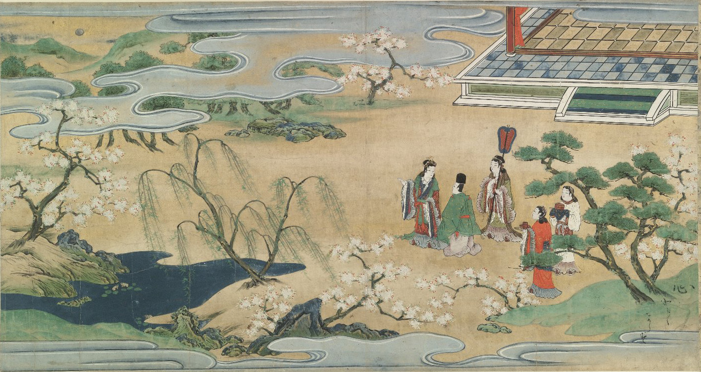 The season of spring in the kingdom under the sea; cherry blossom on the trees. Japanese handscroll or emakimono of a Japanese folk tale of the fisherman Urashima Taro, having saved a turtle’s life, transported to Horai, a Turtle palace as the guest of Princess Otohime. On his return he finds that many years have passed in his home village. Opening a magic box given to him by Otohime, he ages. Written in Japan, late 16th or early 17th century. Shelfmark: MS. Jap. c.4(R)